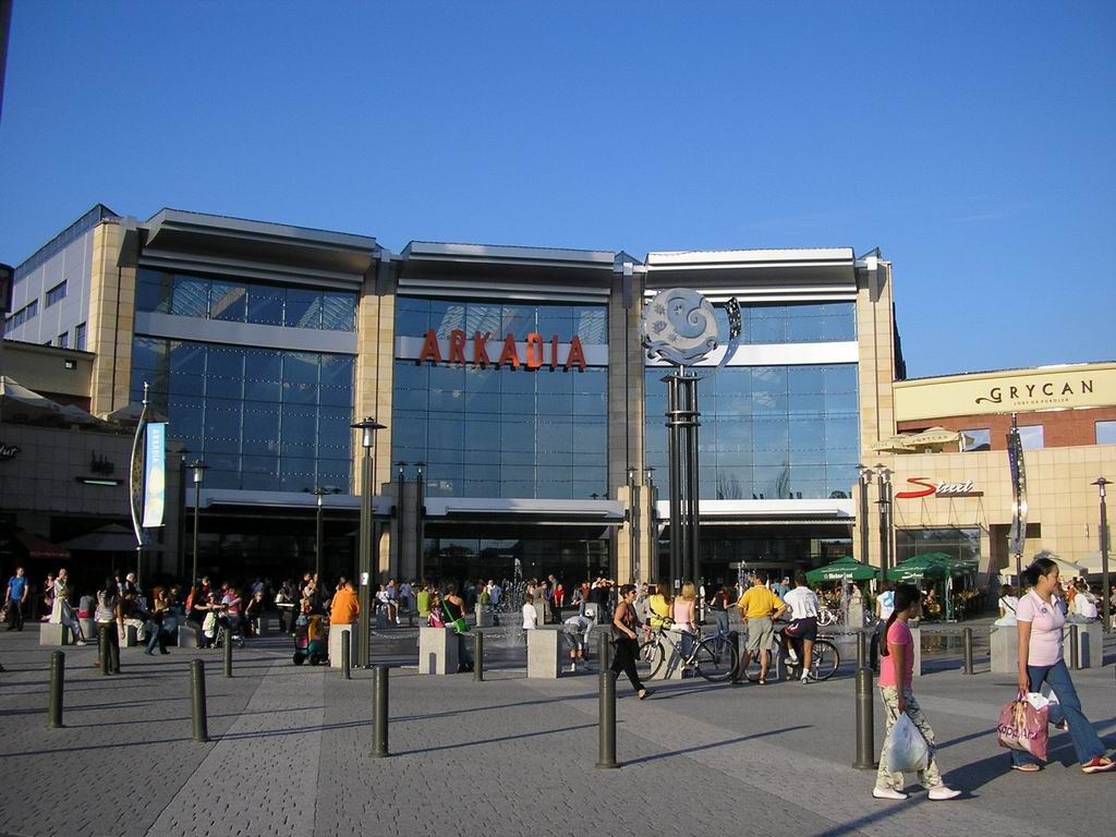 Arkadia shopping mall (front)